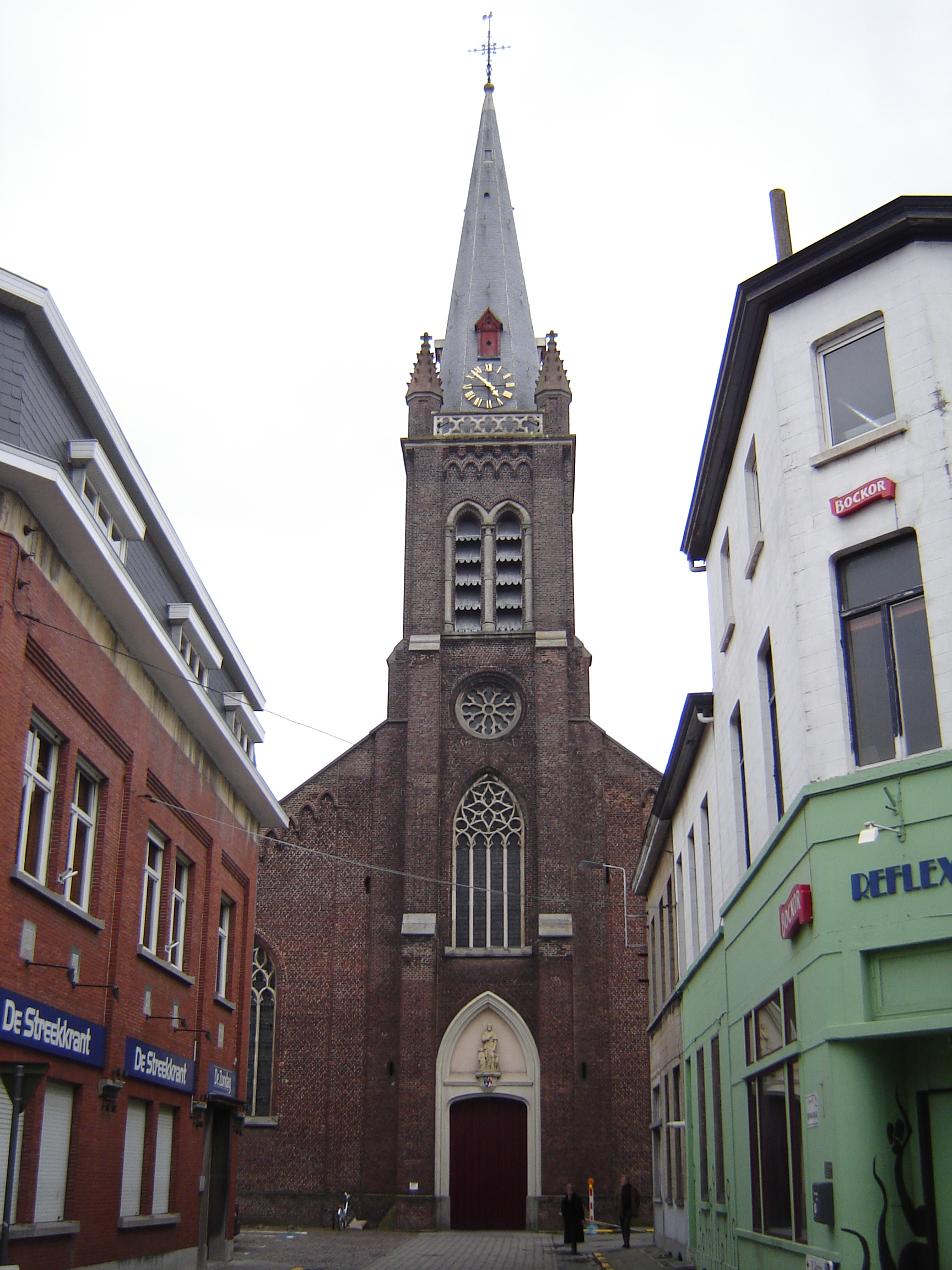 Church of Saint Roch in Kortrijk. Kortrijk, West Flanders, Belgium.